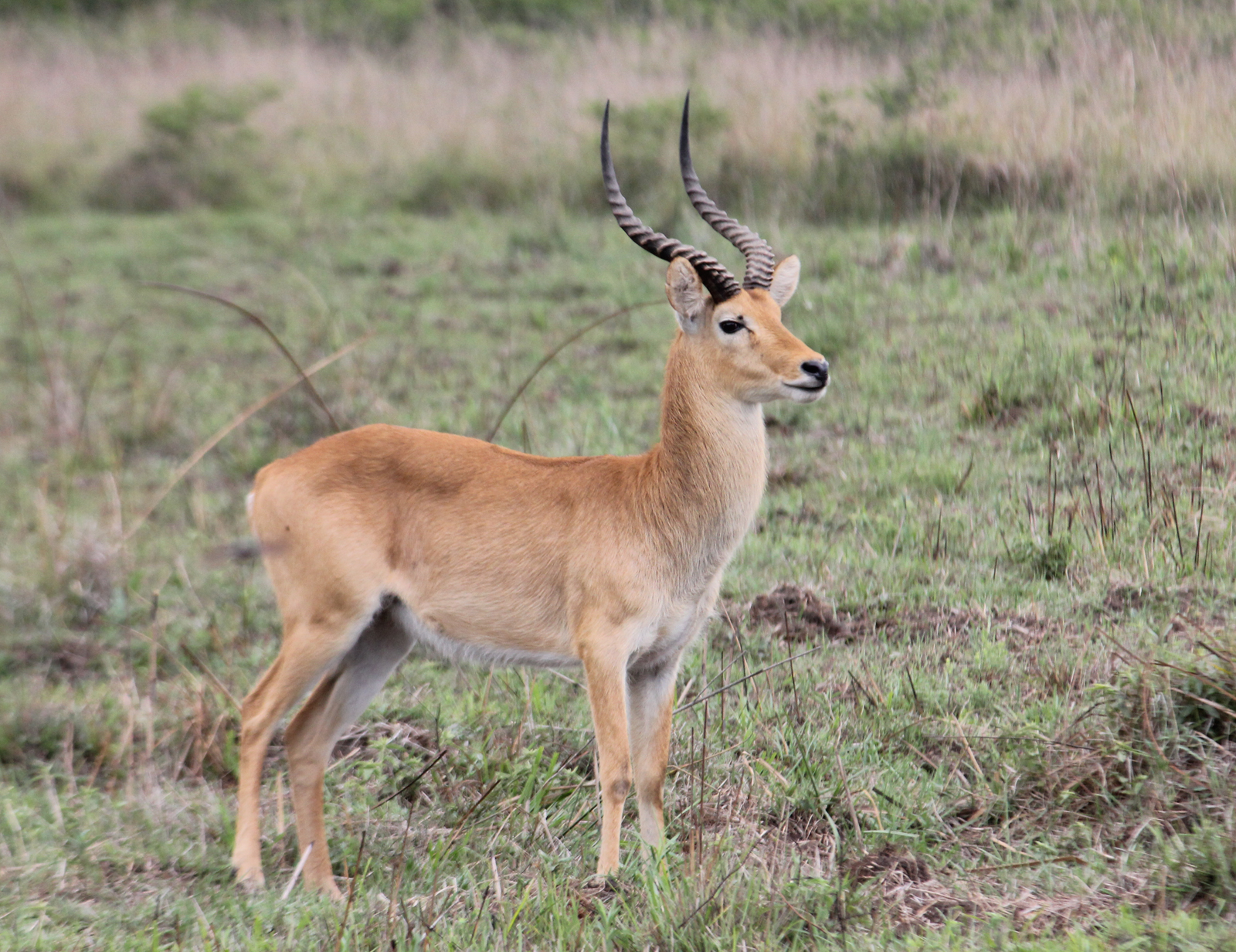 Kobus vardonii, Kasanka National Park, Zambia